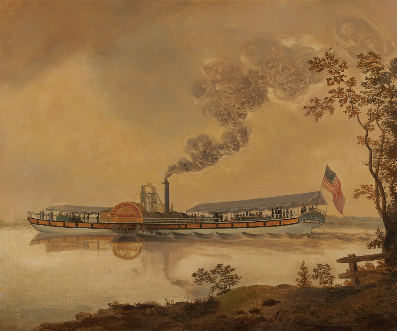 The "Philadelphia", or "Old Sal"